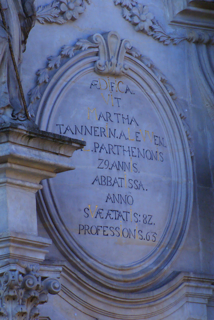 Lubomierz Church